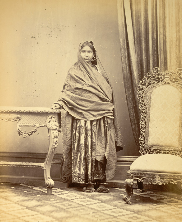 Full-length standing studio portrait of a Hindu girl from Karachi in Sind, Pakistan, taken by Michie and Company in c. 1870, from the Archaeological Survey of India Collections. This is one of a series of photographs commissioned by the Government of India in the 19th century, in order to gather information about the dress, customs, trade and religions of the different racial groups on the sub-continent. The girl in the photograph demonstrates the method of wearing ear and nose rings, bracelets and anklets.